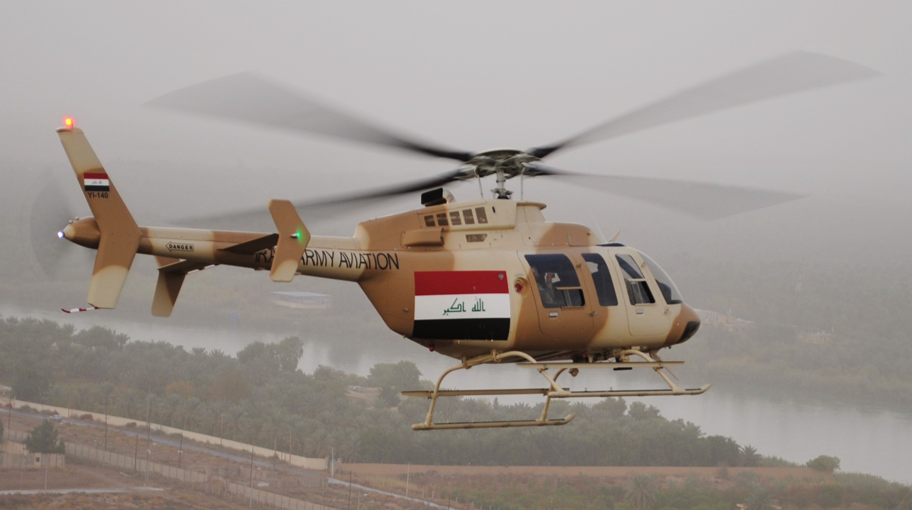 cropped image of Army CWO Robert Grosnick, operates one of the T407s, during the first test flight for the helicopters over Northern Iraq.